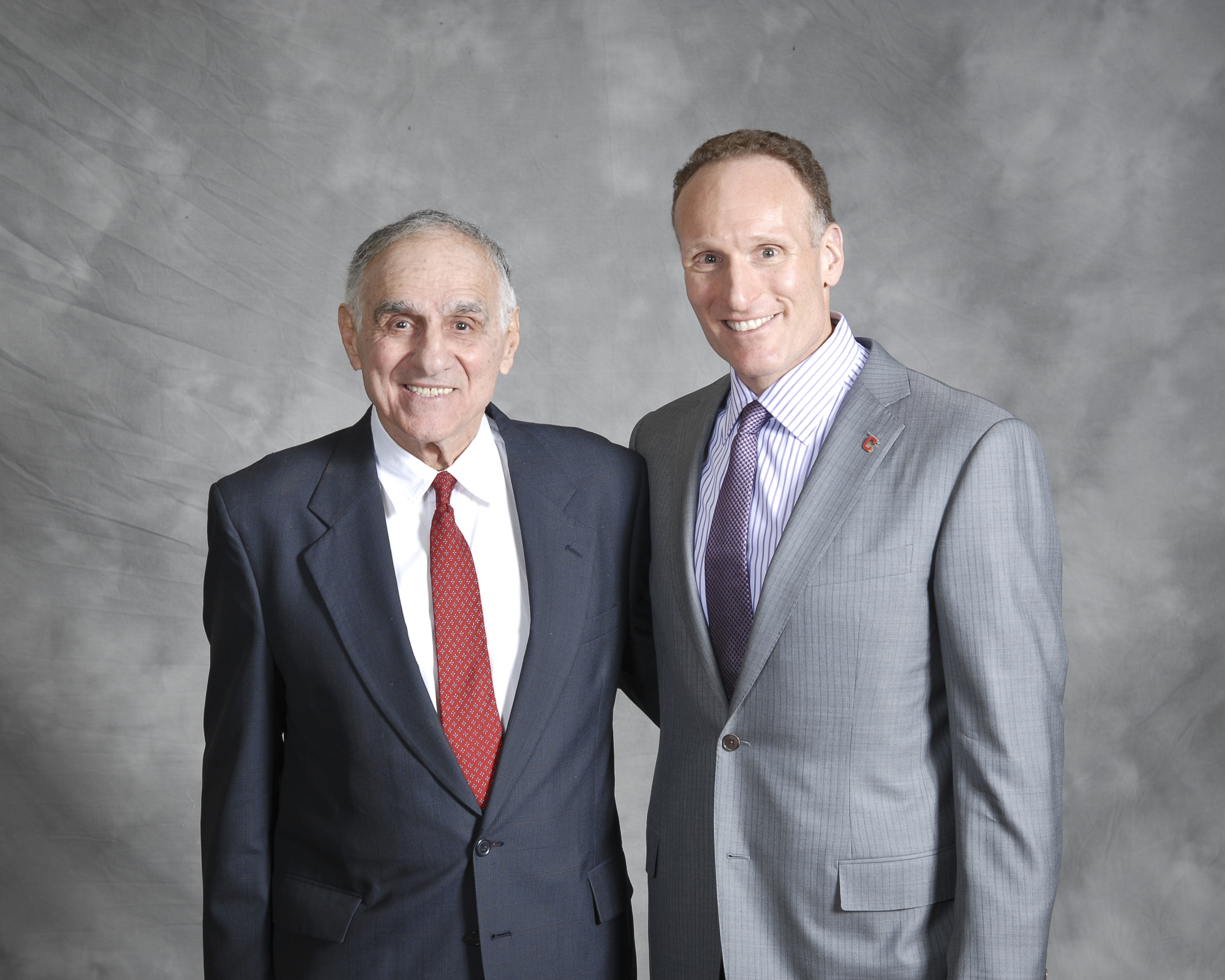 Sam Rutigliano (left, Cleveland Browns) and Mark Shapiro (right, Cleveland Indians) together in 2012.